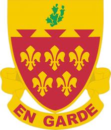 from the US Army Institute of Heraldry